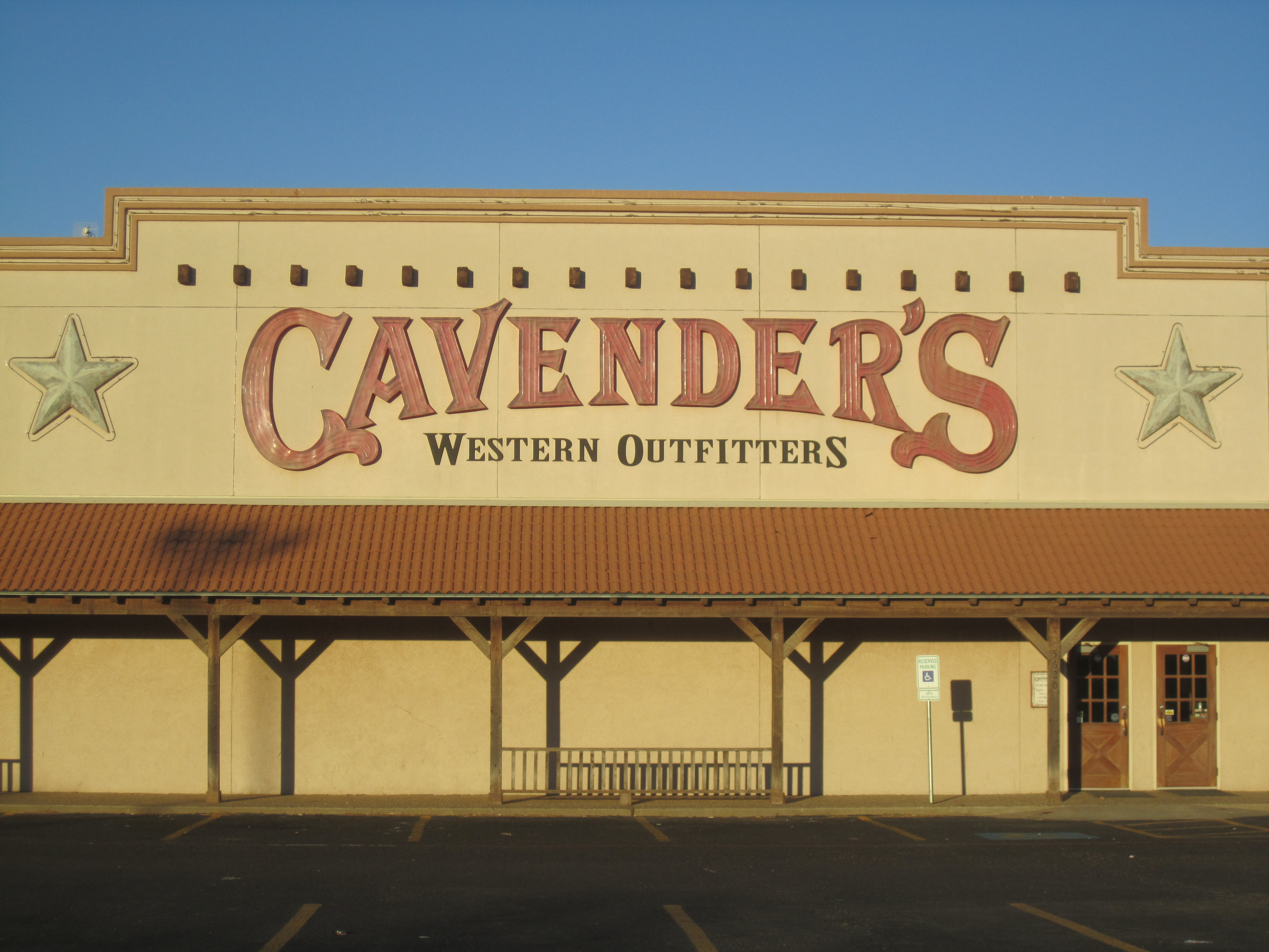 I took photo with Canon camera in Lubbock, TX.